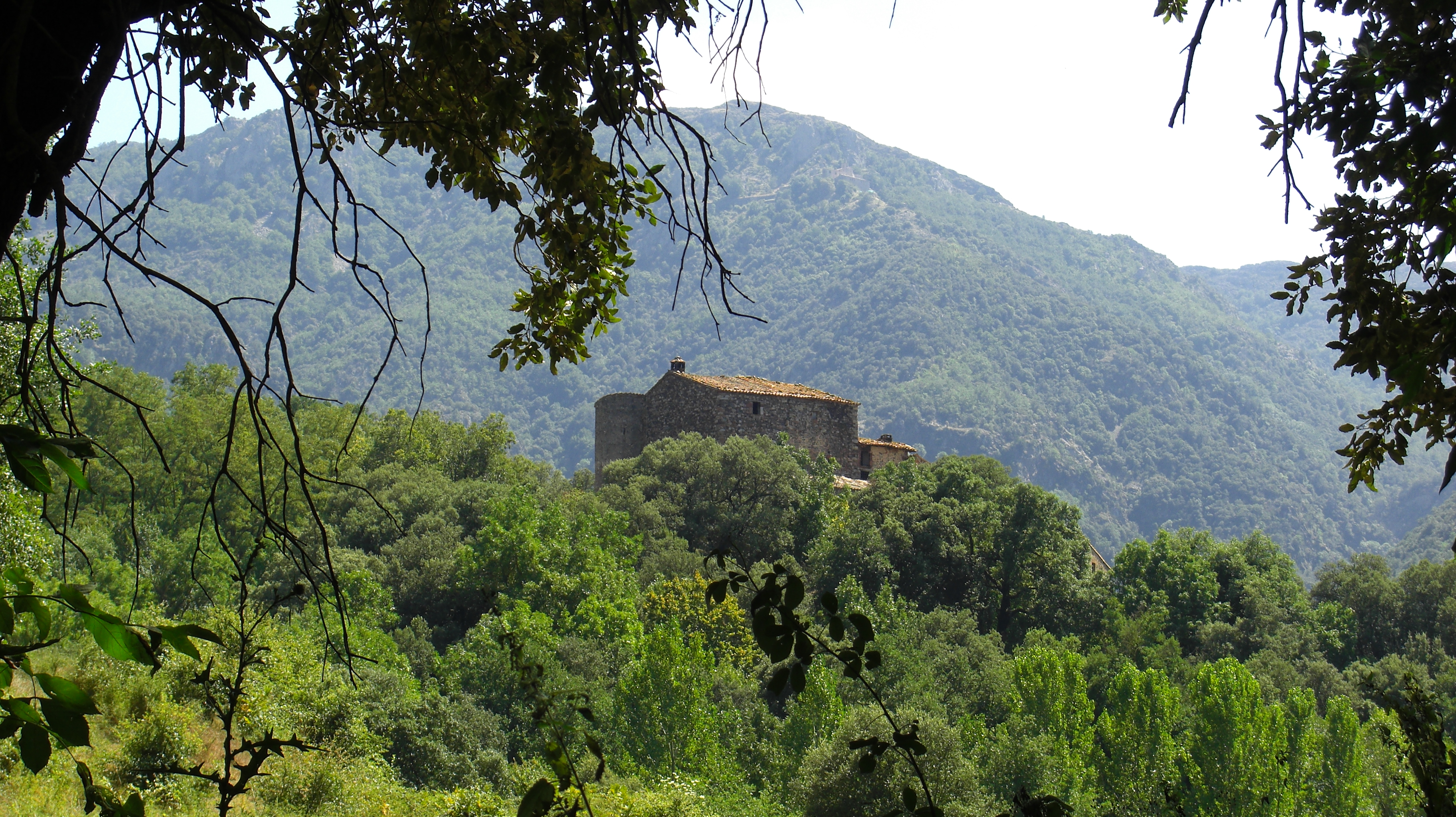 Masia La Sala (Viladrau), birthplace of Serrallonga